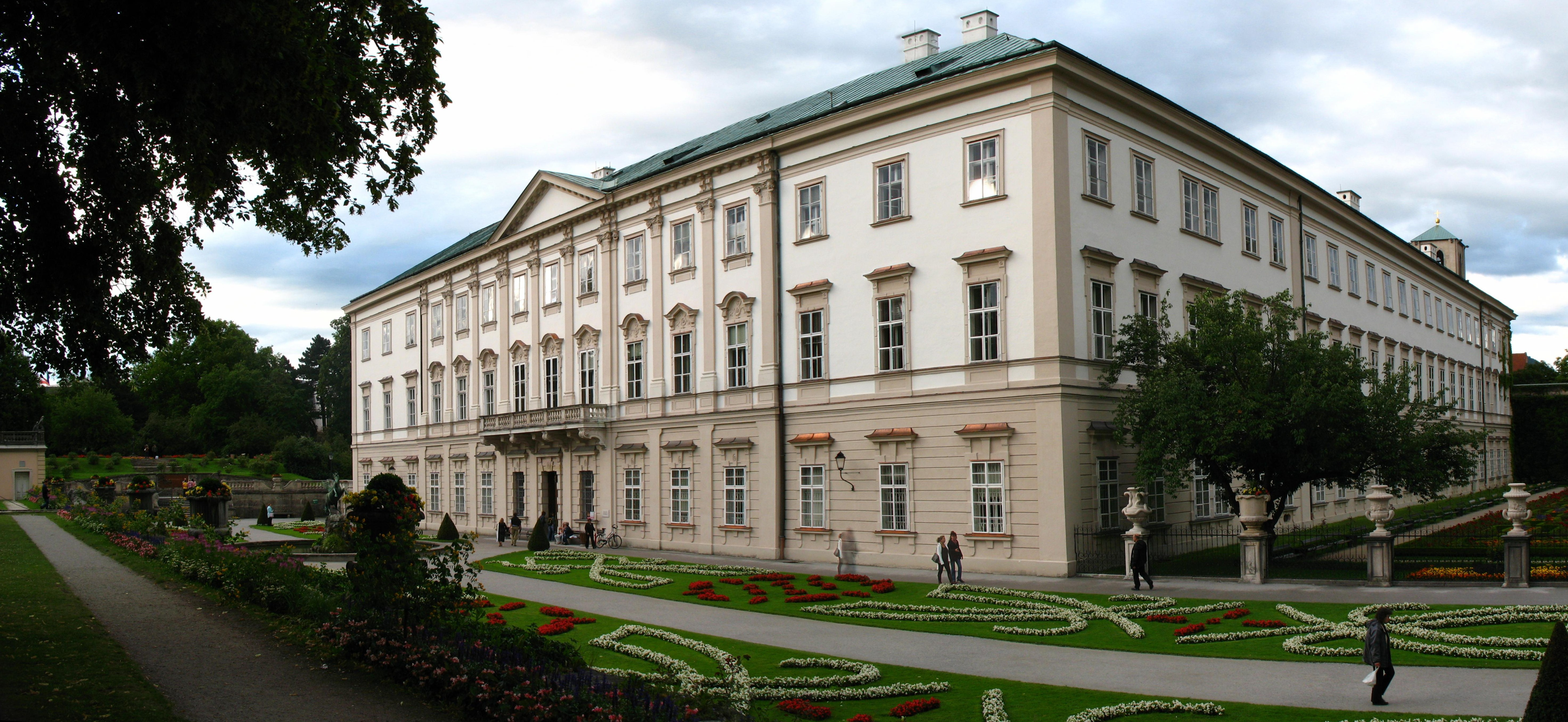 Austria, Salzburg, Mirabell Palace